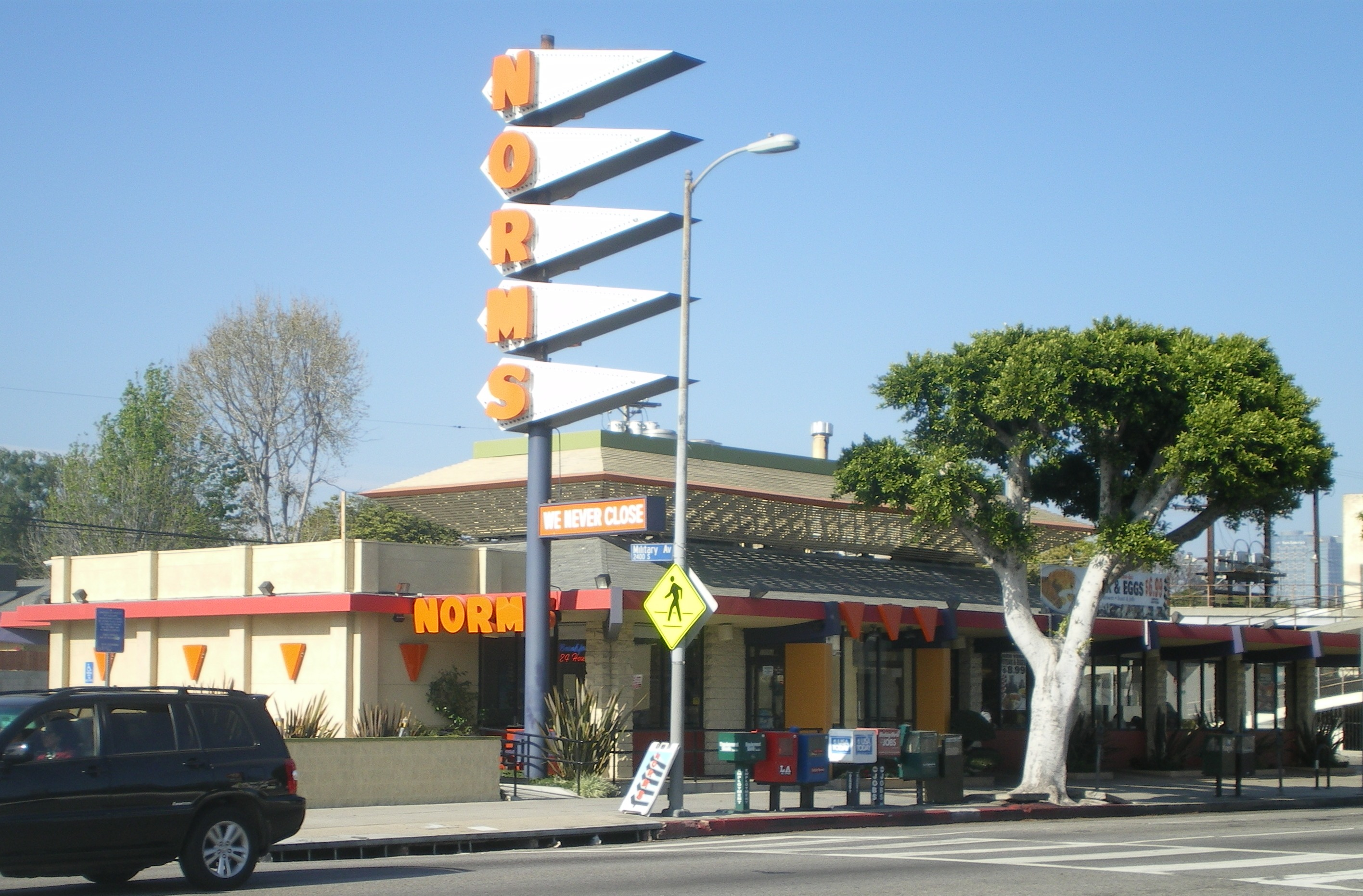 Norm's Restaurant, Pico Blvd., Westwood, Los Angeles, Calif. Pico Boulevard, Westwood, Los Angeles, California